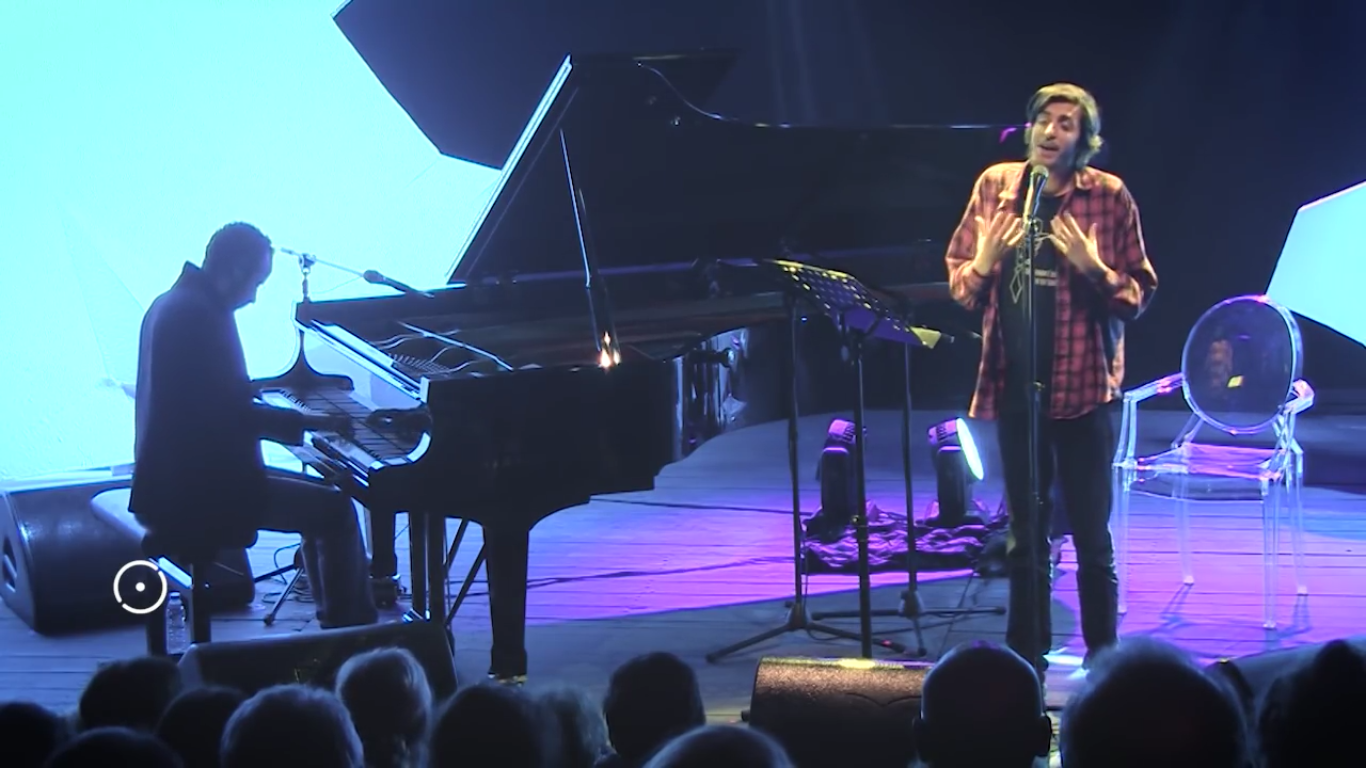 Júlio Resende and Salvador Sobral in the Folio Festival, in Óbidos, Portugal, 30 September 2016, sing poems by Alexander Search (one of Fernando Pessoa's heteronyms).